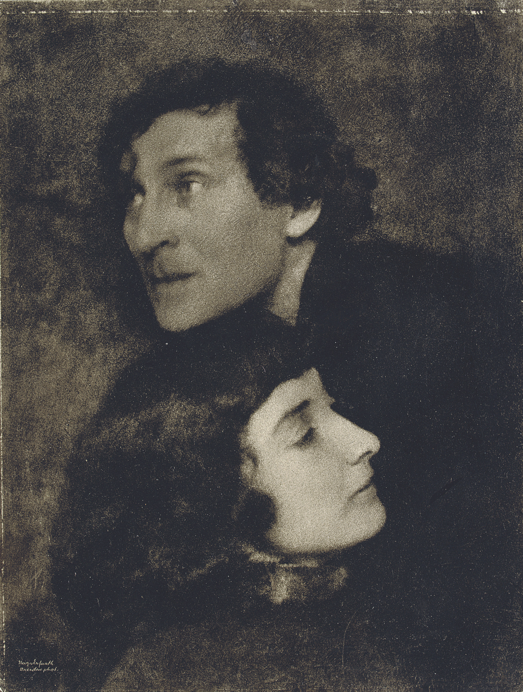 HUGO ERFURTH (1874-1948) Marc and Bella Chagall, 1923 bromoil print signed and annotated 'Dresden phot.' in negative; credited, titled, numbered '7', '166' [crossed out] and printing notations in other hands in graphite/red wax pencil, 'Secondo "Salon" Italiano' exhibition label on verso This is credited and titled in an unknown hand which differs from all other instances of annotations in unknown hands in this group (lots 27-40). 11 x 8½in. (28 x 21.5cm.)